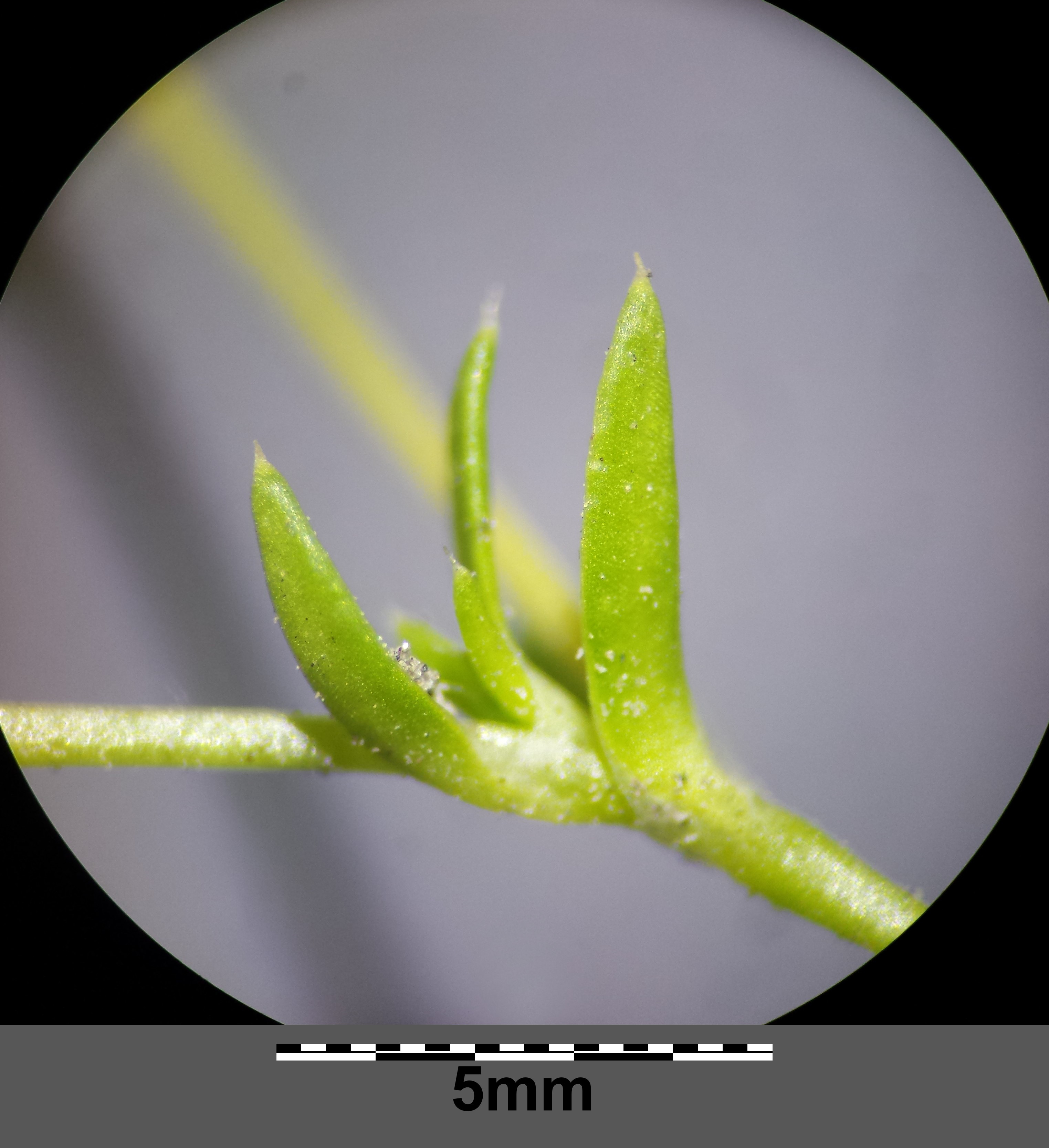 Shortly aristae leaves Taxonym: Sagina procumbens ss Fischer et al. EfÖLS 2008 ISBN 978-3-85474-187-9 Location: Rosenburg, district Horn, Lower Austria - ca. 260 m a.s.l. Habitat: gap in road surface